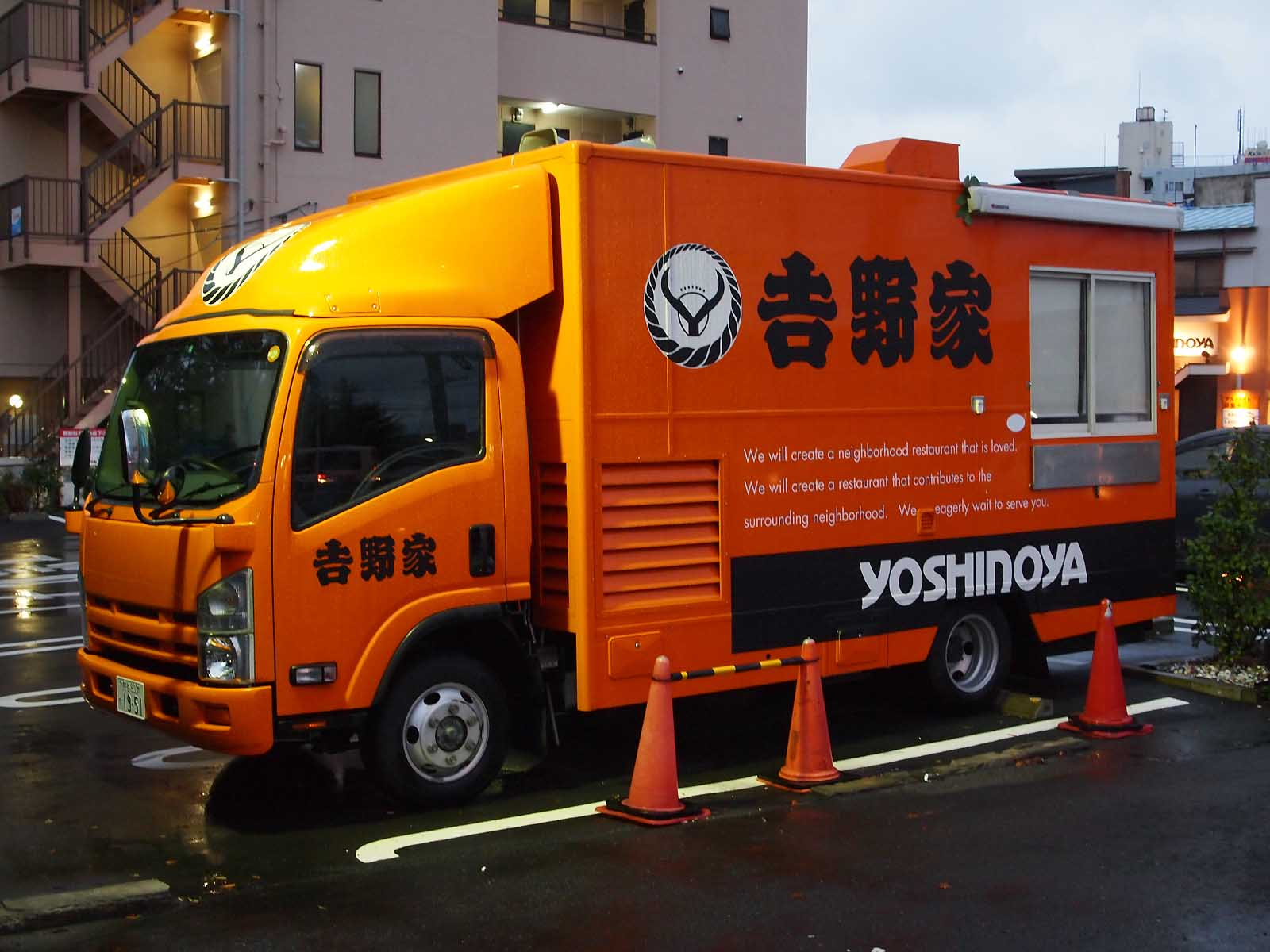 Yoshinoya's mobile kitchen truck "Orange Dream".